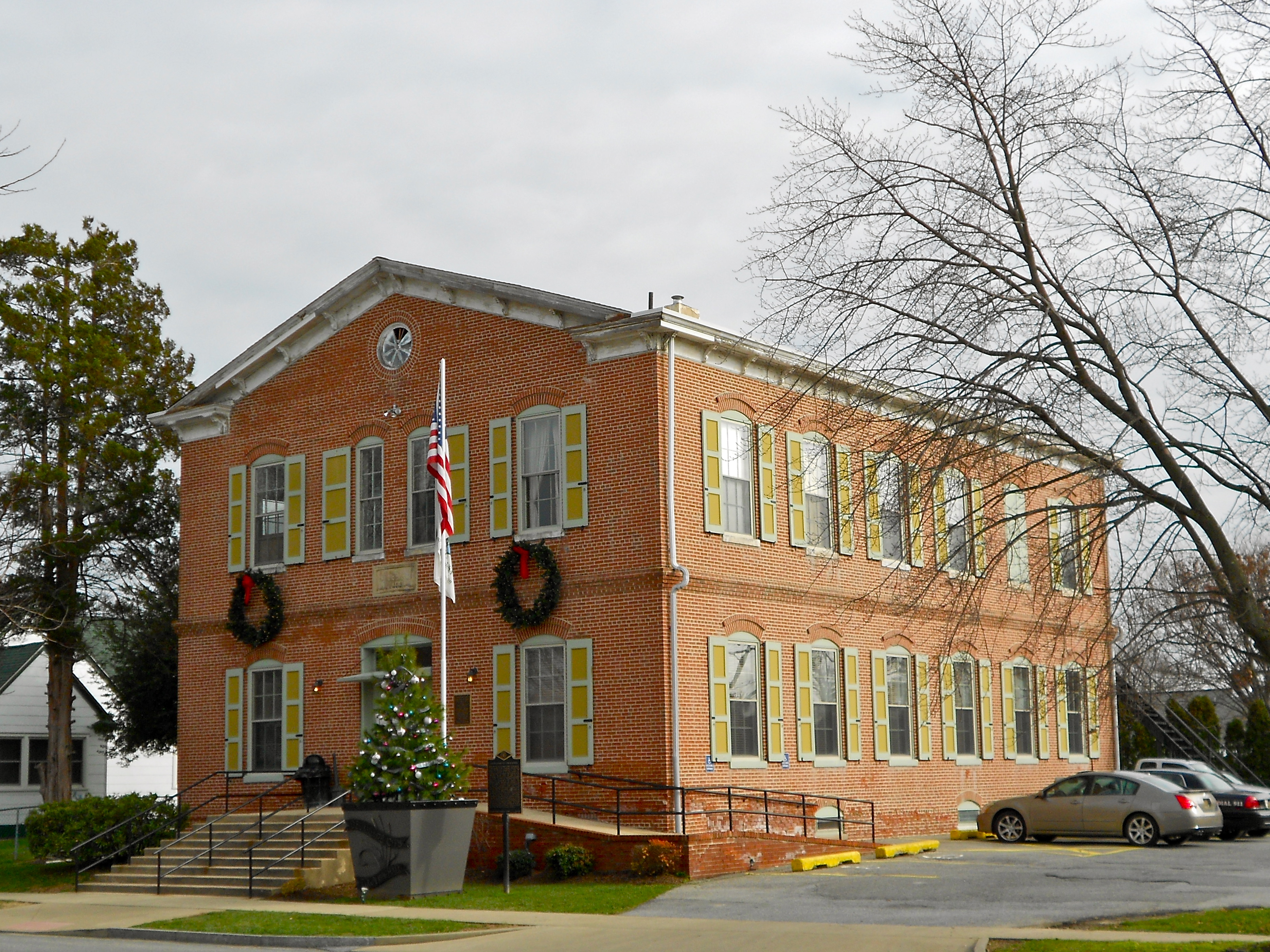 Old school and town hall in the Delaware City Historic District (on the NRHP since December 15, 1983) The historic district is roughly bounded by the Delaware River, Dragon Creek, Delaware Route 9, and the Delaware and Chesapeake Canals in Delaware City, New Castle County, Delaware.